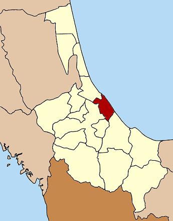 Map of Songkhla province, Thailand, highlighting the district Mueang Songkhla (อำเภอเมืองสงขลา)